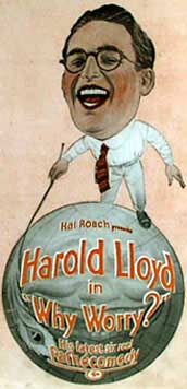 Movie poster for Why Worry? (1923).